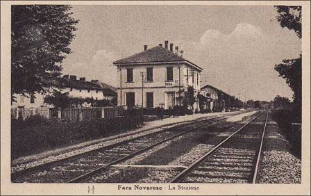 Fara Novarese railway station